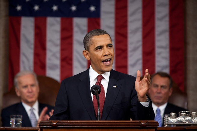 President Barack Obama delivers the State of the Union address in the House Chamber at the U.S. Capitol in Washington, D.C.